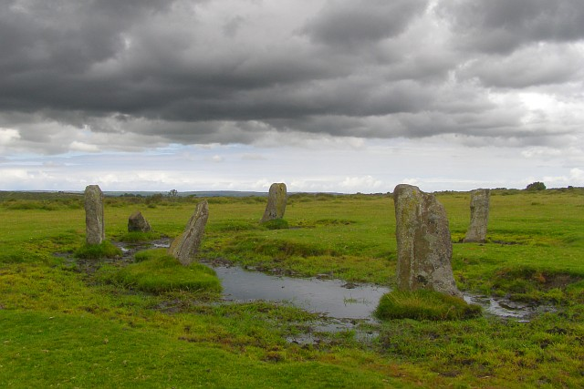 Nine Stones stone circle, East Moor Sometimes called the Nine Stones of Altarnun, although they are far from any settlement, out on the open moor. The surrounding grass shows that the area is heavily grazed, and the deep muddy puddles around the stones were made by the hooves of large herbivores who use the stones as scratching posts - there are few trees out here that could be used in that way.